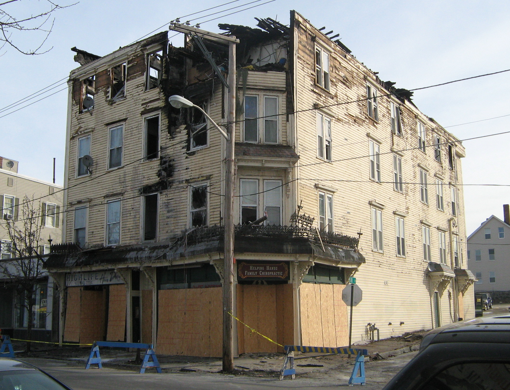 Picture of historical building, erected in 1889, on Bridge Street, Lowell, Massachusetts, United States, shortly after it burned in the early morning of 2010-02-12.